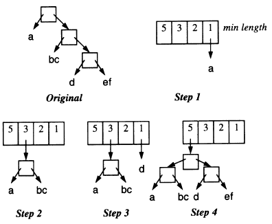 Balancing ‘abcdef’